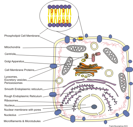 diagram of cell structure